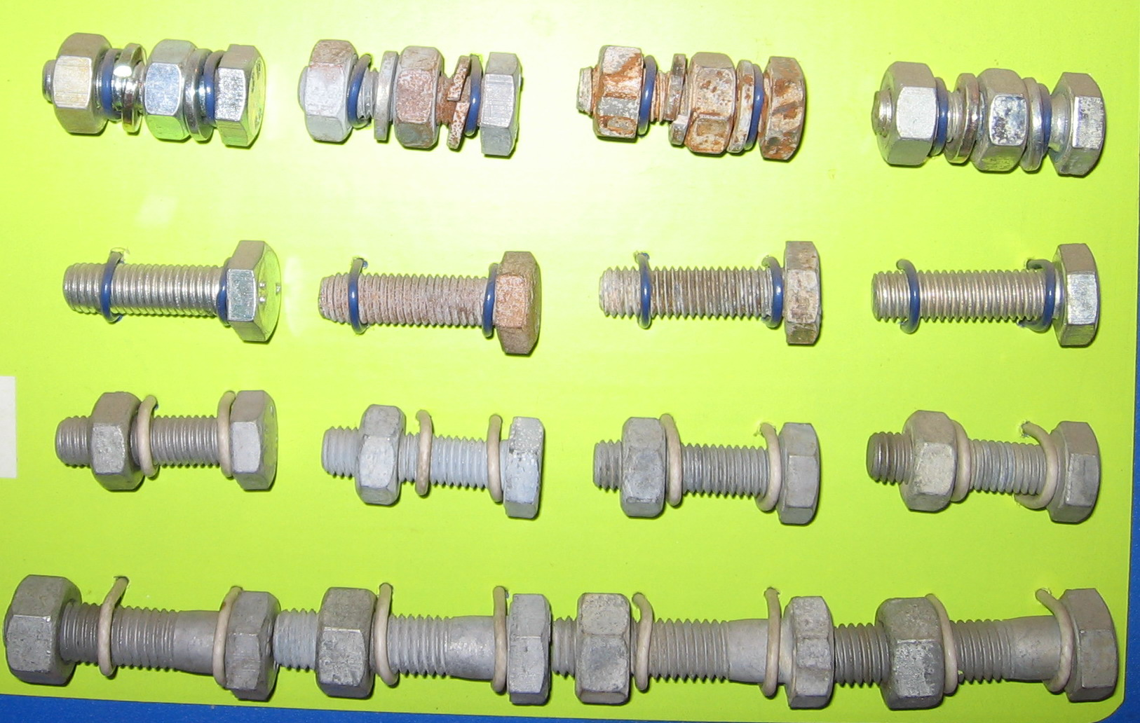 zp and hdg bolts, rusted in NaCl and HCl solutions and in water